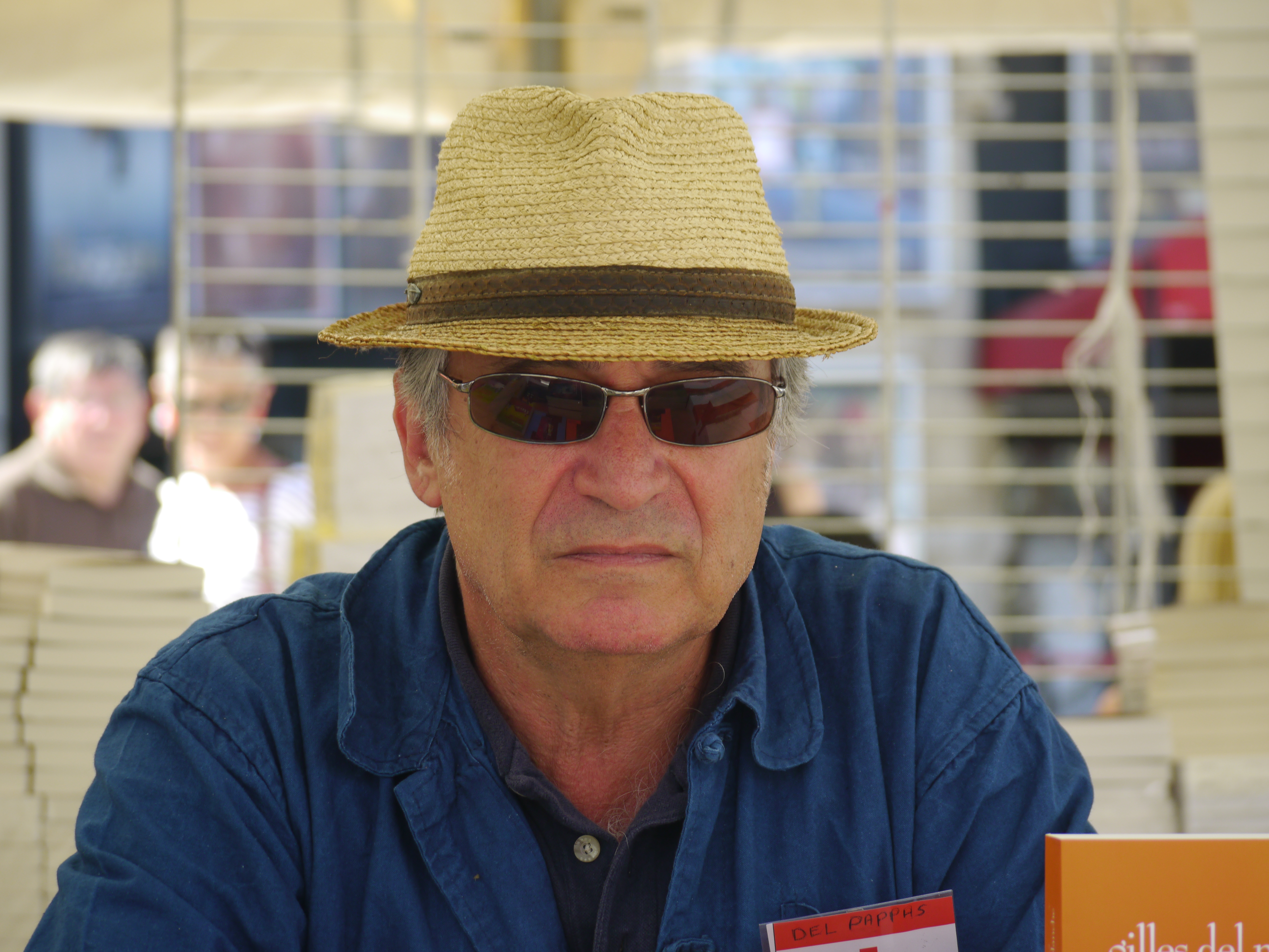 Comédie du Livre 2011 edition of Montpellier